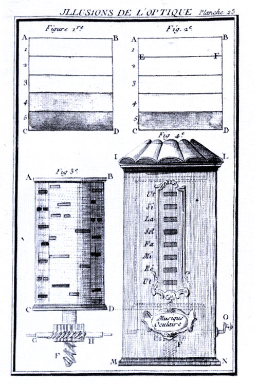 Louis Bertrand Castel, «Ocular music». Reproduced in: Edme-Gilles Guyot, Nouvelles récréations physiques et mathématiques, Paris, 1770.